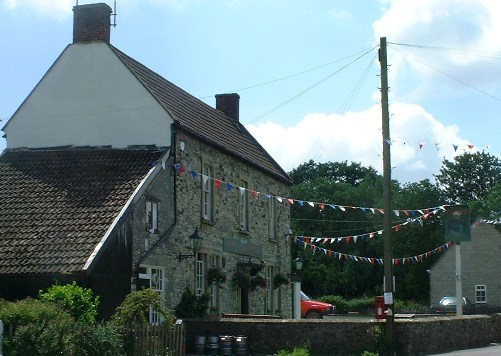 Compton Arms, Compton Dando. Taken by Rod Ward 22nd June 2006